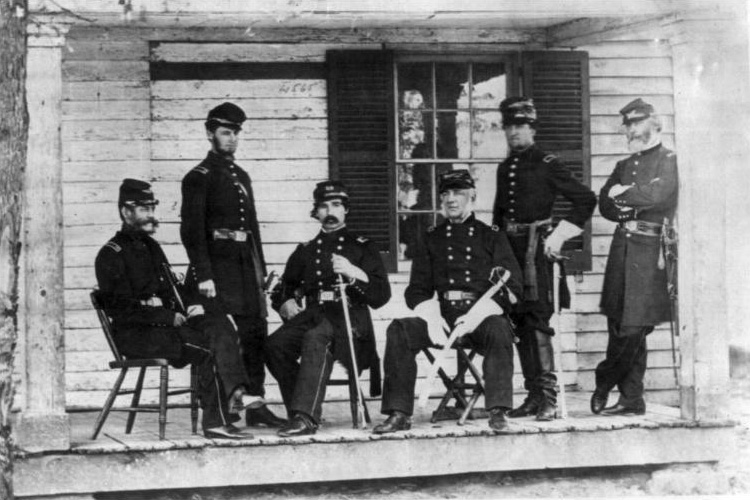 James Samuel Wadsworth (1807-1864)